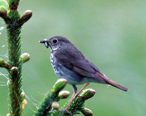 Hermit Thrush (Catharus guttatus)